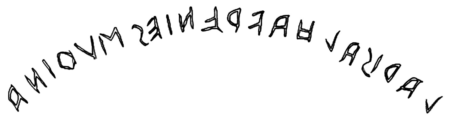 Of Laris Havrenie, for the tomb.